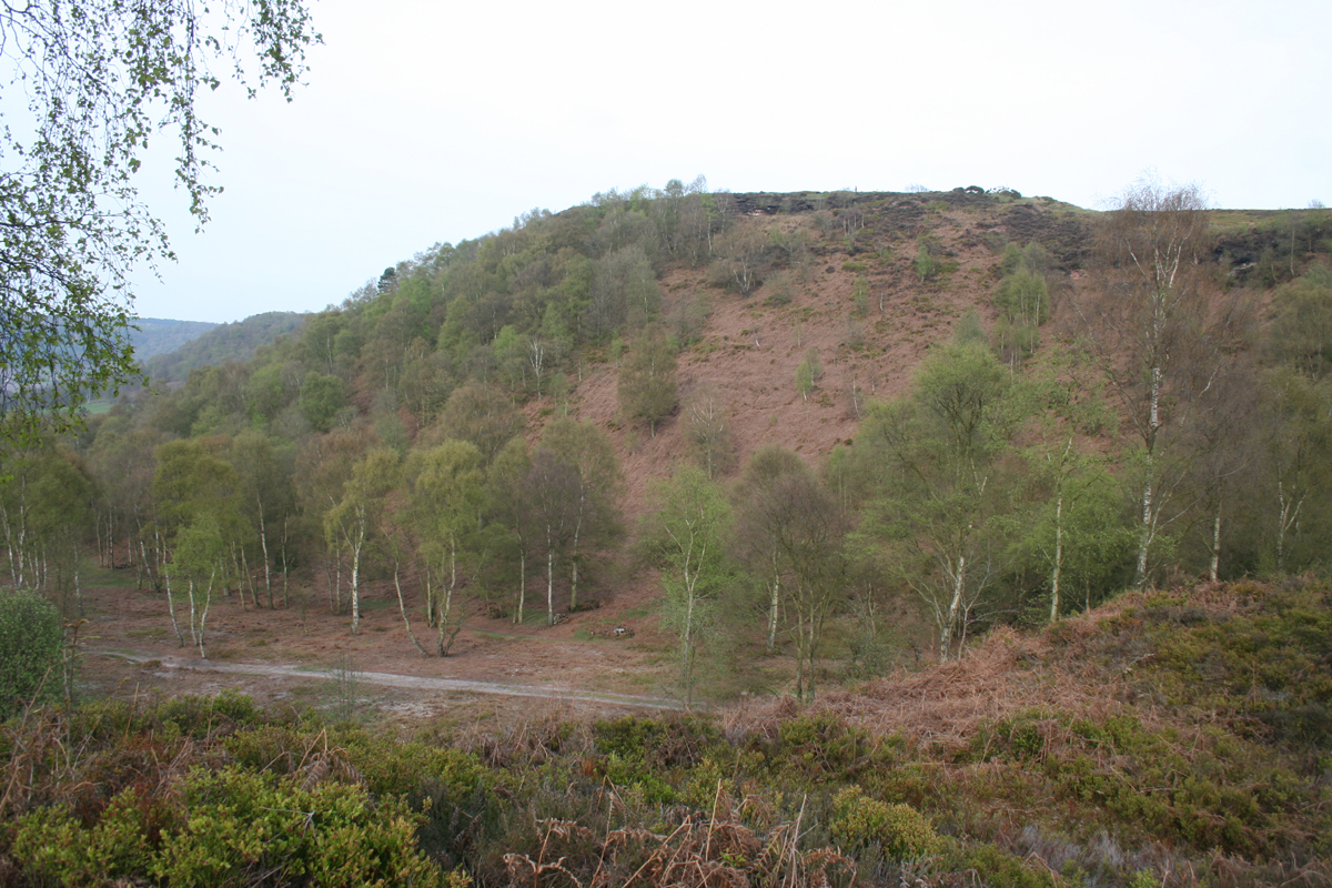 Southerly summit of the southern Bickerton Hill, Cheshire. The earthworks of Maiden Castle crown this high point